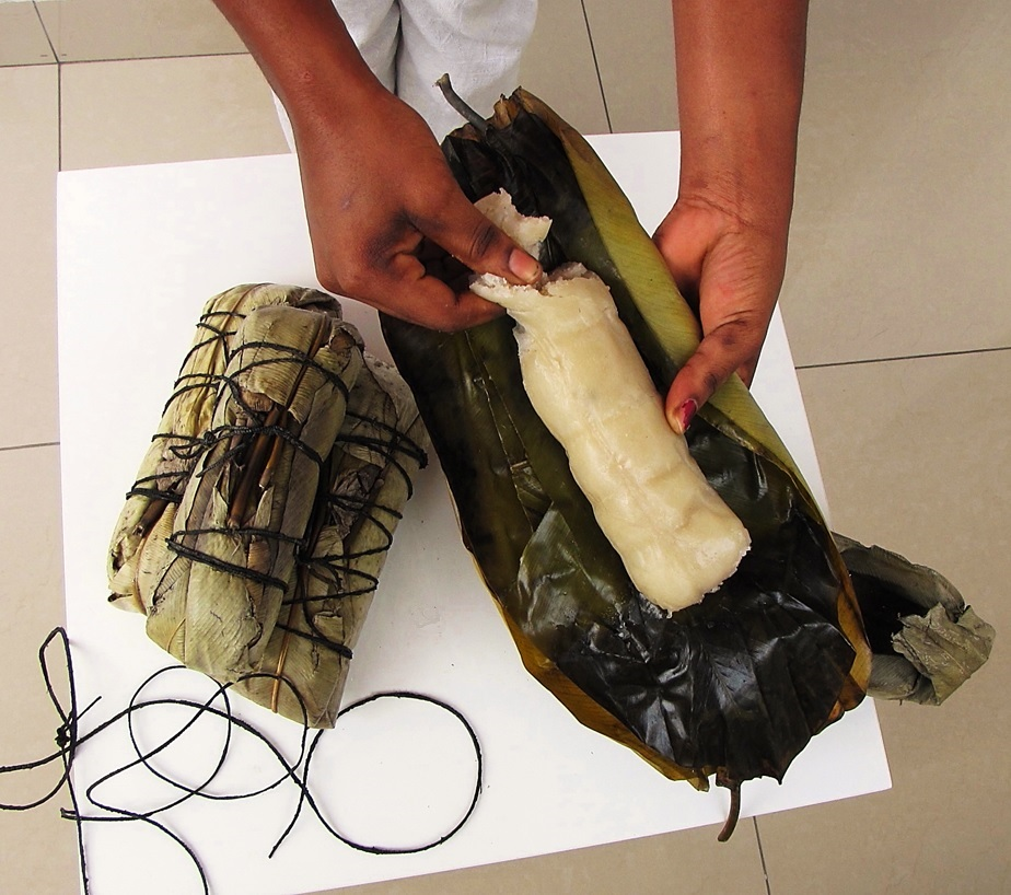 A stack of fully-cooked, leaf-wrapped packets as sold on the street, also with the leaves unwrapped to show the ready-to-eat cassava 'bread.' If kept in the cooked leaf wrap, it is quite hygienic and will usually stay fresh for several days. Can be eaten as-is, but usually pinched off and dipped in any popular sauce. In the Congo (DRC) and central African region, often called kwanga or chikwangue, but also known by many names in the various languages across the region. Not actually a bread but a thick paste of soaked, rinsed and pounded cassava that is steamed-cooked inside leaves. Leaves also add a bit of tangy flavor during the cooking process. Six large leaves were used to tightly fold around and seal the roll of cassava before tied and cooked. Leaves shown from the plant Sarcophrynium arnoldium (Megaphrynium macrostachyum), alternately banana leaves can be used if these are not available.